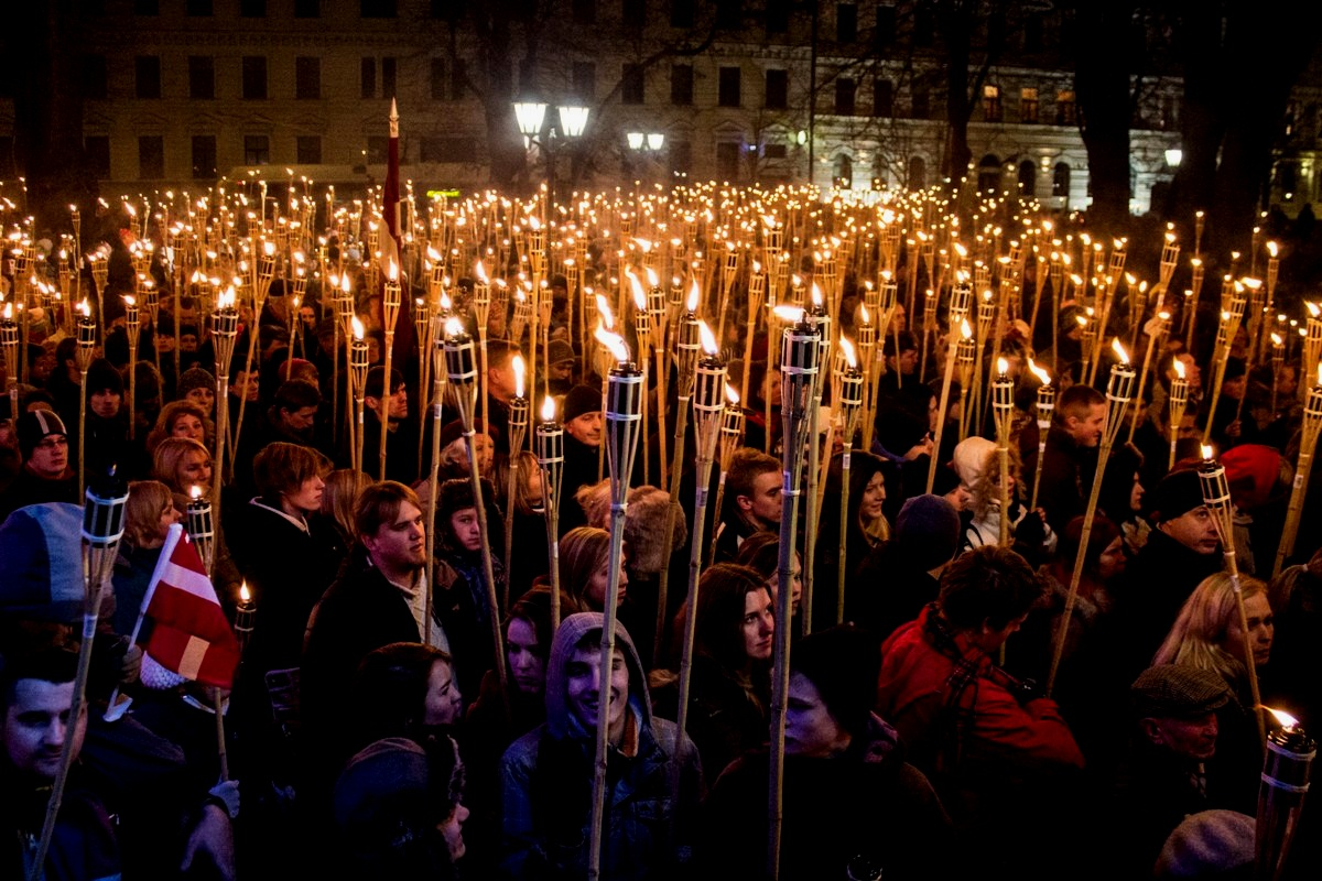 Assembling for the 18. November Torchlight procession, 2012 in Rīga, Latvia.